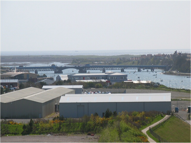 Crook Scar. Looking due south from the industrial estate on the coast by Crook Scar. The roof of the college can be seen, and beyond it in the adjacent square, the Jubilee Bridge linking Walney Island to the mainland at Vickerstown.